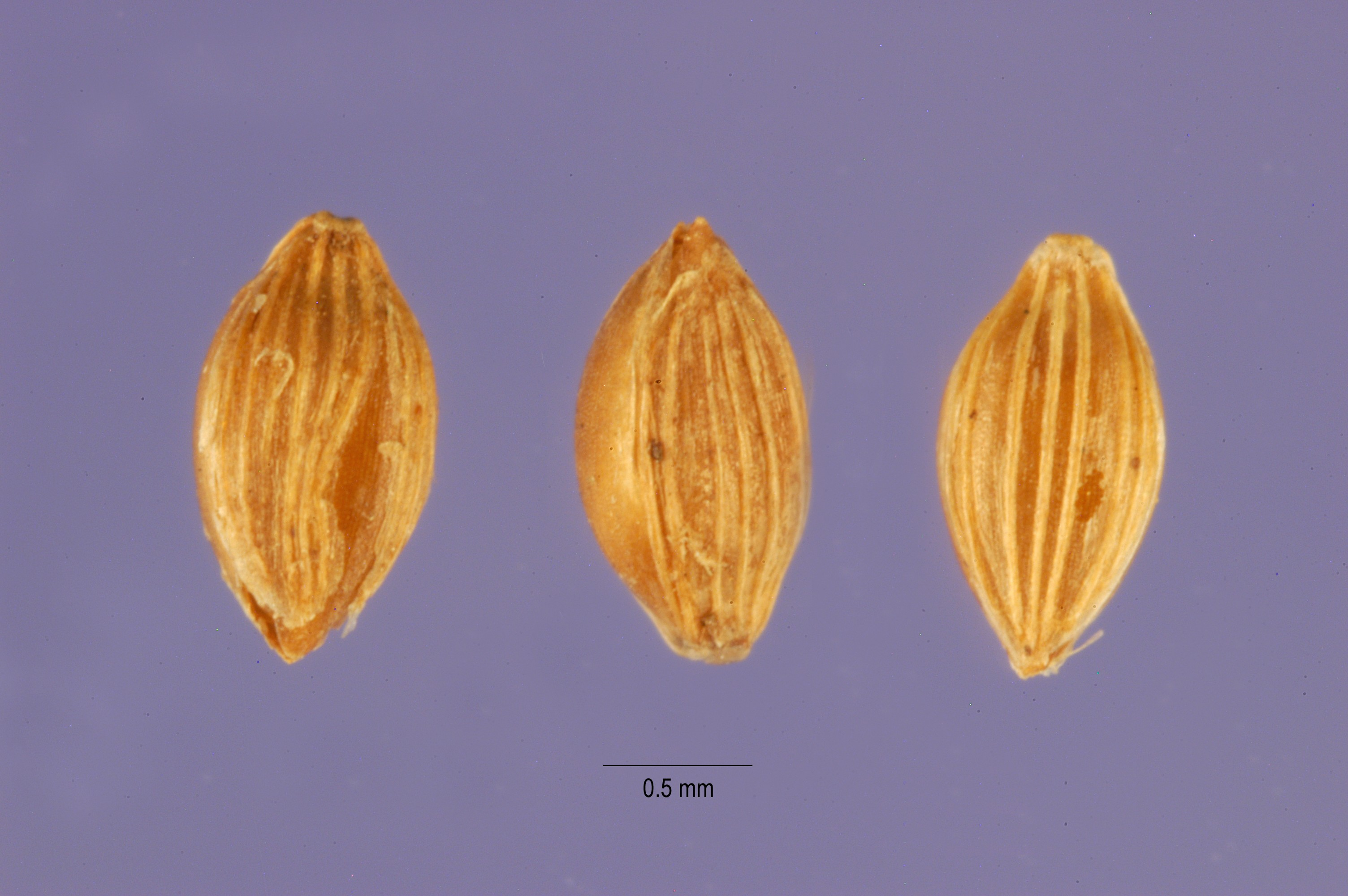 Digitaria exilis (Kippist) Stapf [excluded] - fonio - DIEX4